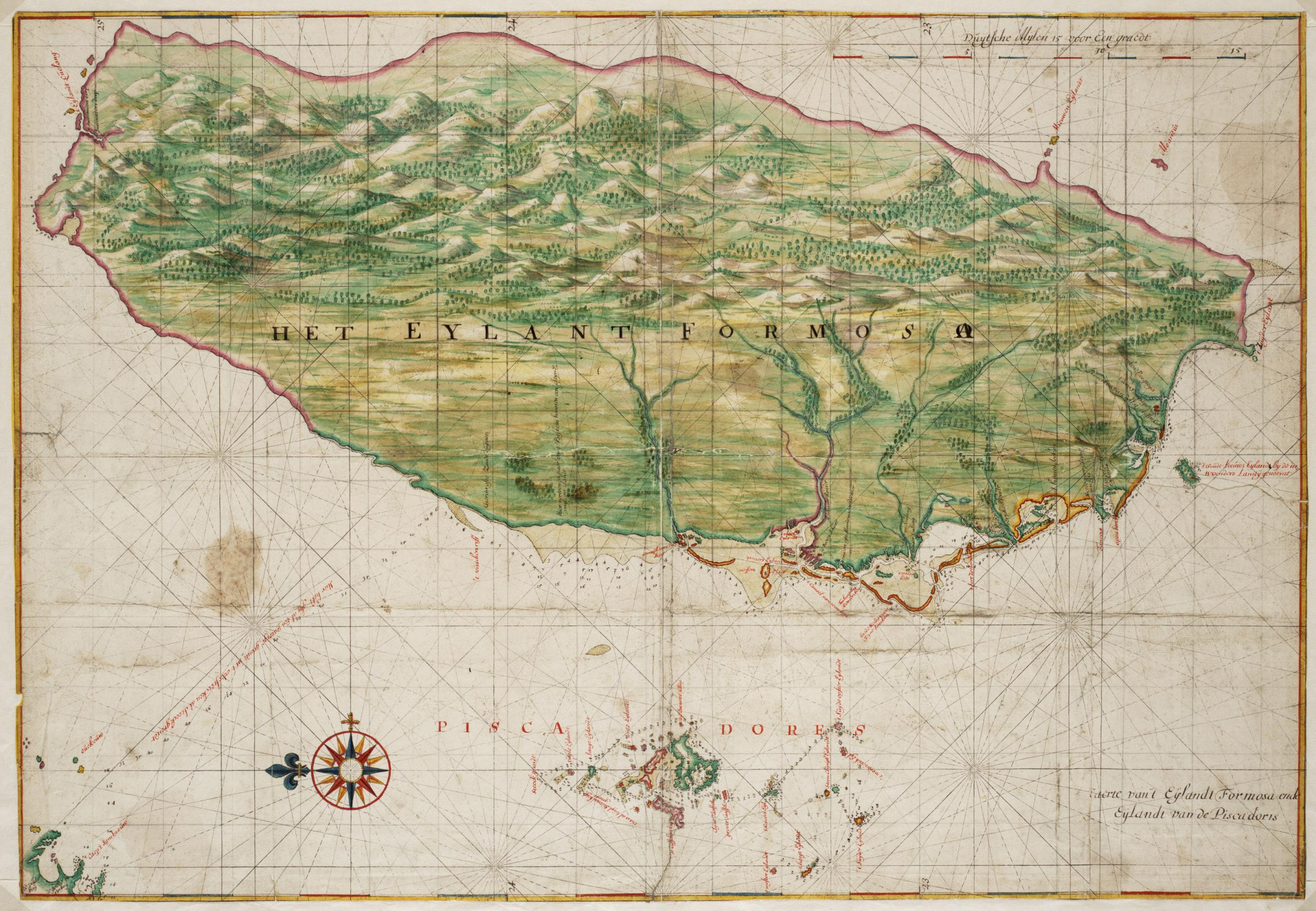 Title in the Leupe catalogue (National Archives): Kaart van de kusten van Formosa en de Pescadores. Soundings indicated on the chart. Strips of paper have been pasted on the reverse. The strips bear letters and words, but these do not combine into a coherent text. The outlines of The island Formosa and the Pescadores on this map are exactly the same as the ones on the map in the Atlas Blaeu-Van der Hem from the Österreichische Nationalbibiothek , Vienna, inv. nr. Van der Hem 41:02.